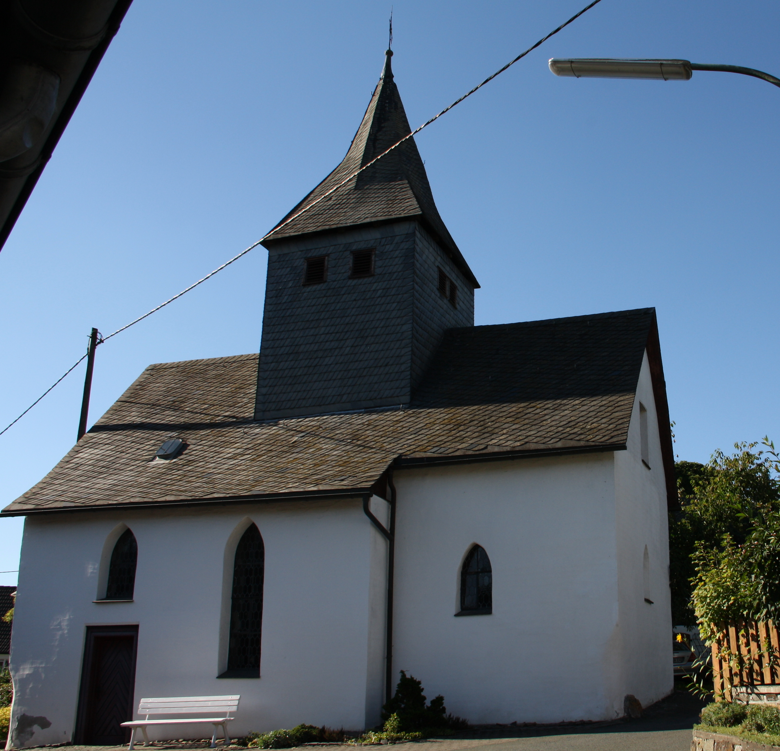 This is a photograph of an architectural monument., no. 083